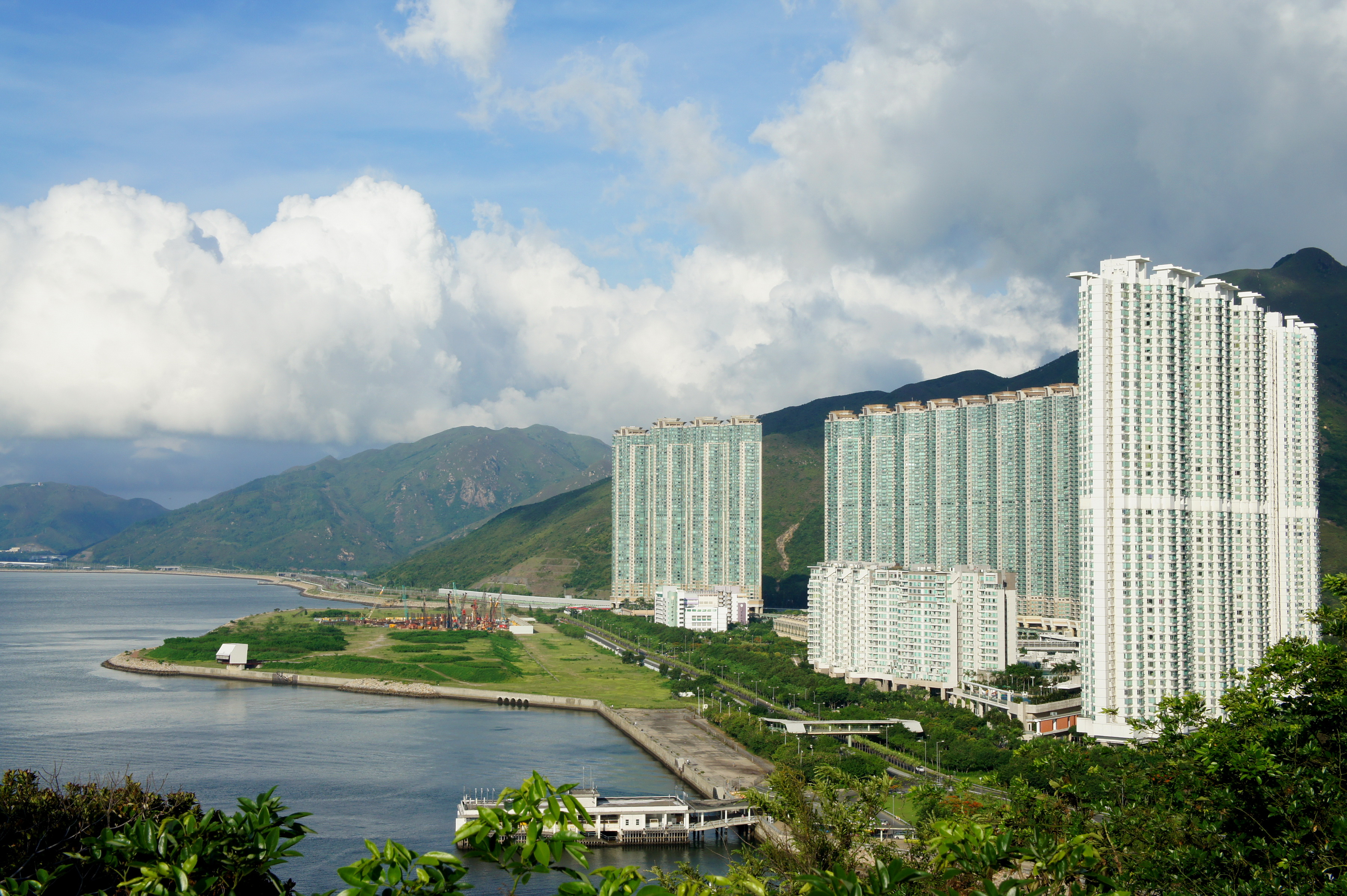 Tung Chung North, Lantau Island, Hong Kong.